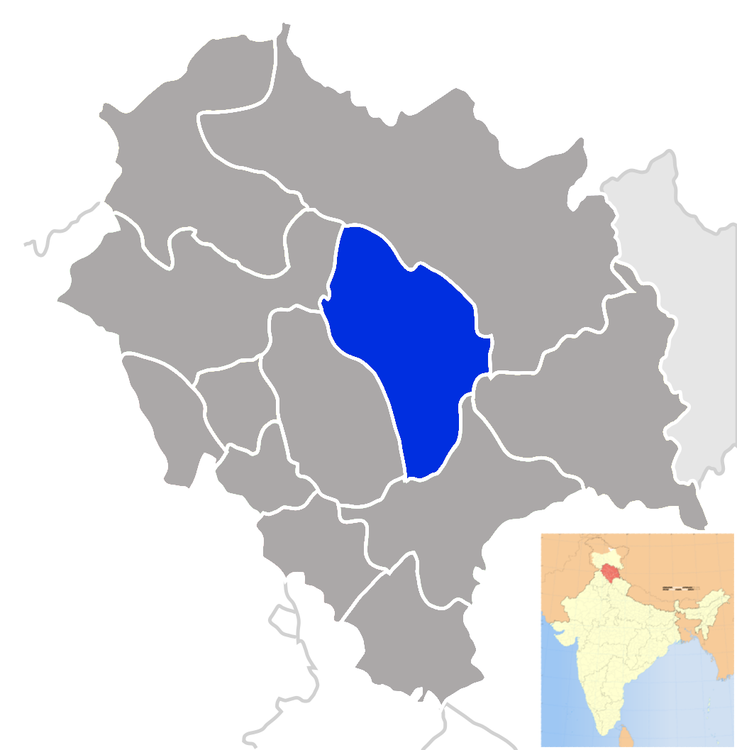 Kullu district of Himachal Pradesh